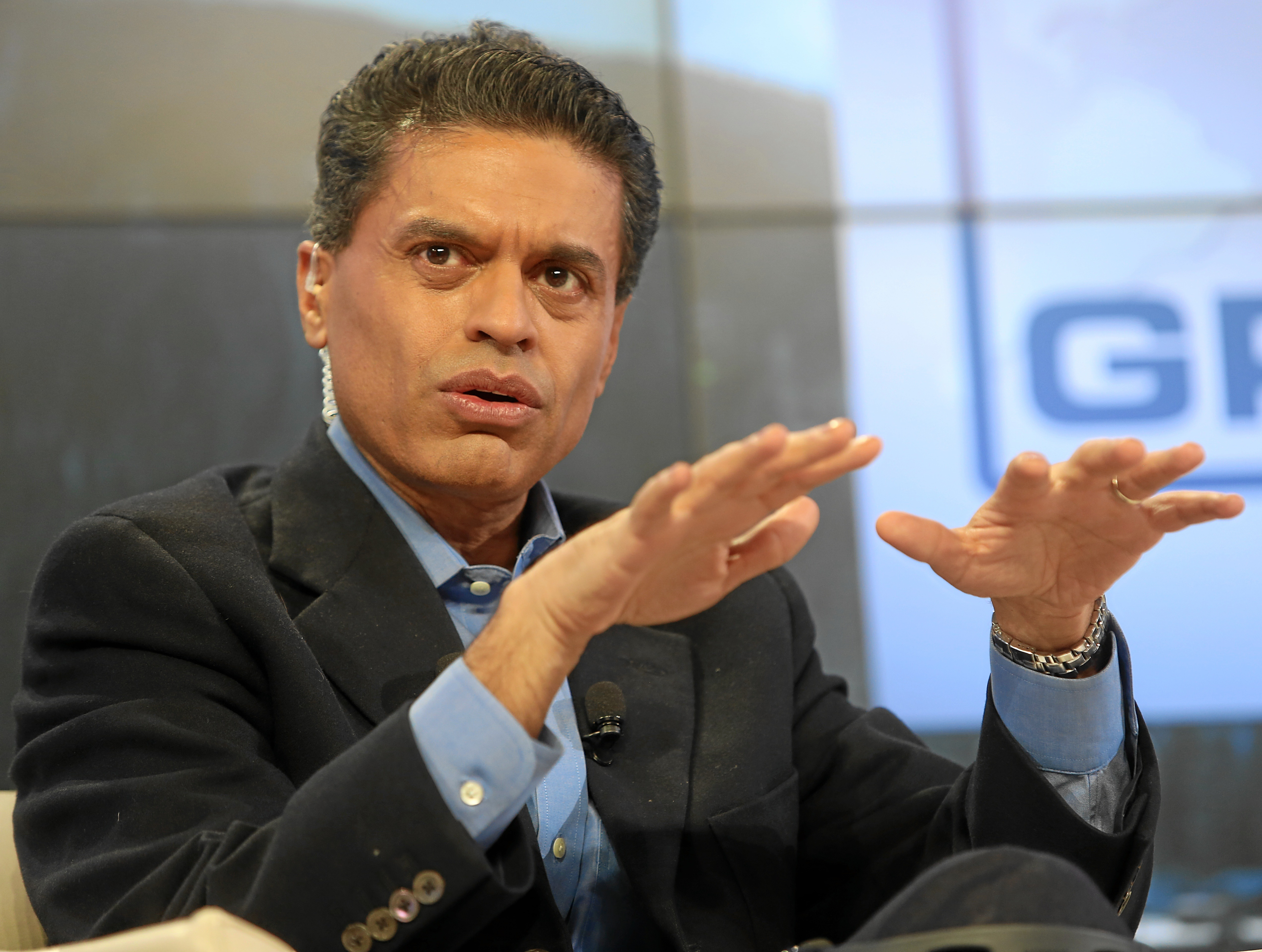 DAVOS/SWITZERLAND, 25JAN13 - Fareed Zakaria, Anchor, Fareed Zakaria - GPS, CNN, USA, during the session 'Transformations in the Arab World' at the Annual Meeting 2013 of the World Economic Forum in Davos, Switzerland, January 25, 2013. Copyright by World Economic Forum Monika Flueckiger